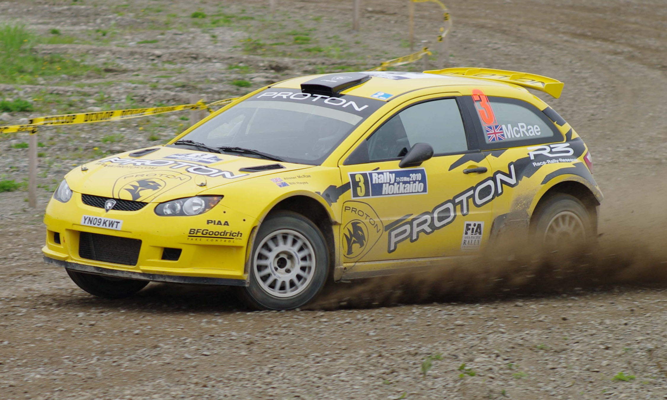 Proton Satria Neo Super 2000 rally car drived by Alister McRae in Rally Hokkaido 2010